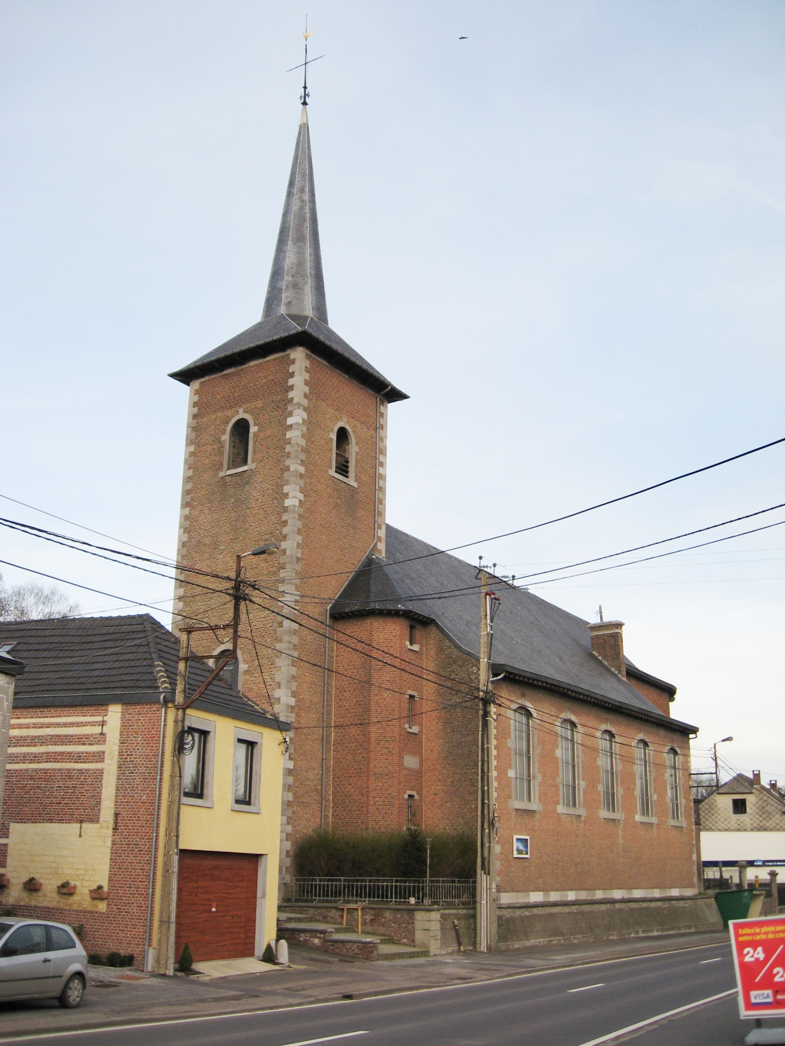 Church of Saint Remigius in Roclenge-sur-Geer, Bassenge, Liège, Belgium